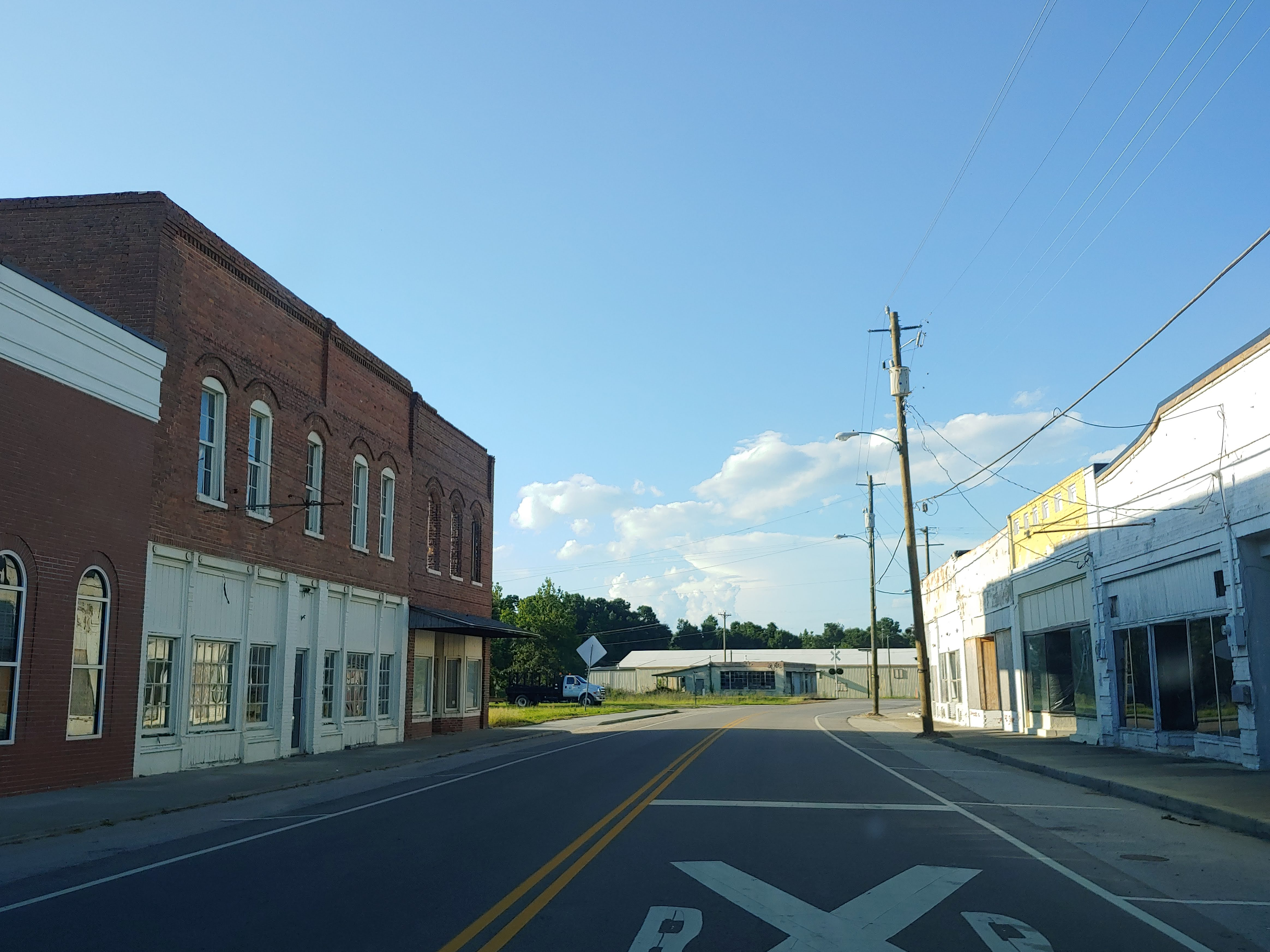 A photo of downtown Greeleyville, South Carolina